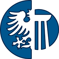 FPF logo